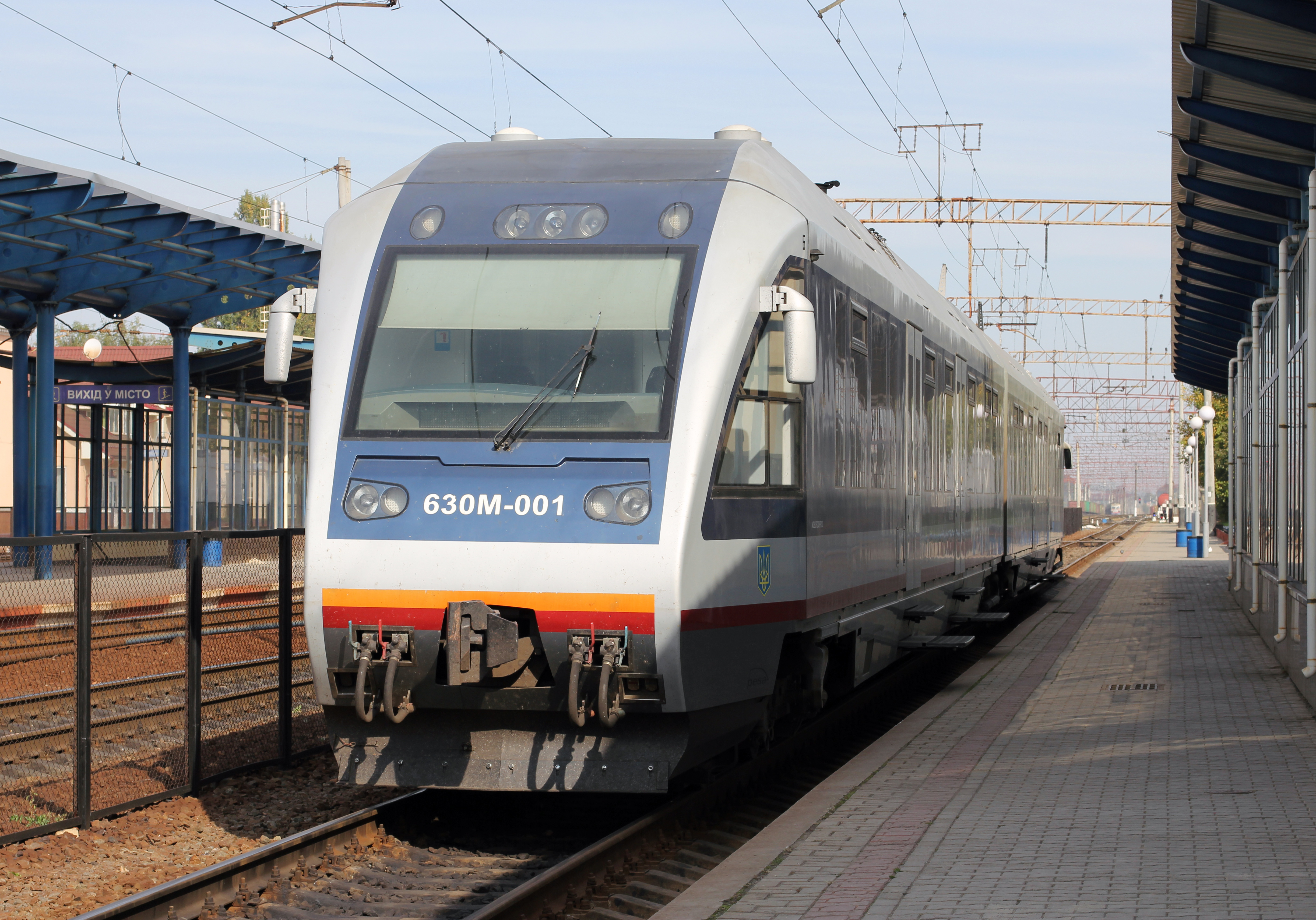 Diesel passenger two-units railcar Pesa 630M in Vinnitsa railway station.